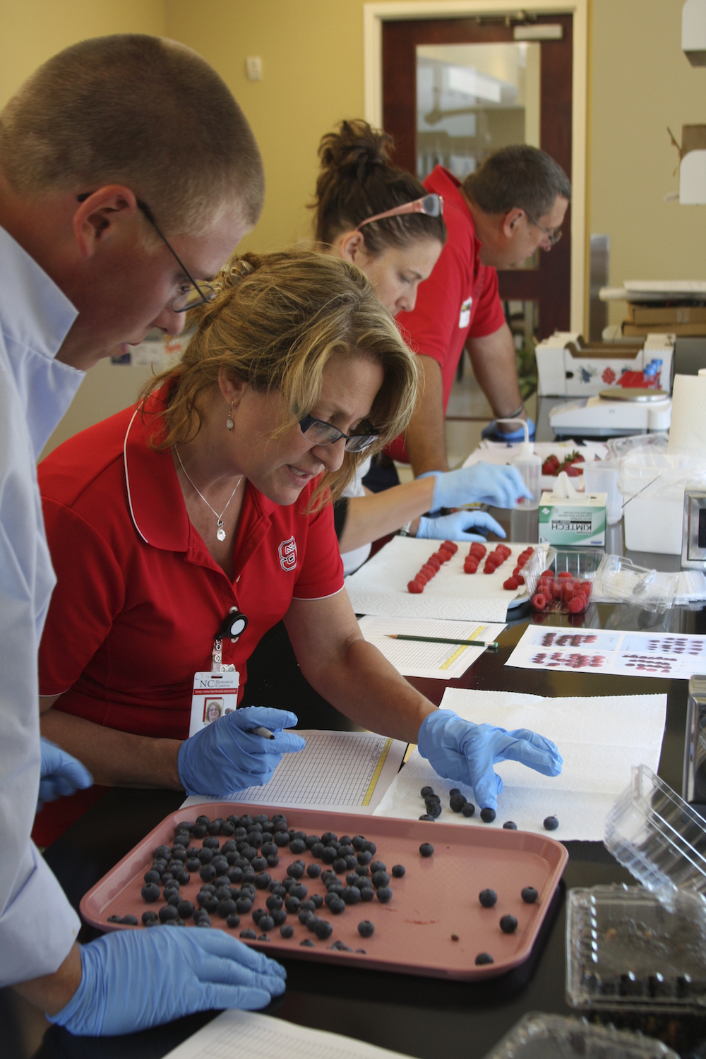 N.C. Cooperative Extension agents and specialists like Diane Ducharme (second from left) attend a training for postharvest handling of fresh produce at N.C. State University's Plants for Human Health Institute at the N.C. Research Campus in Kannapolis, N.C.